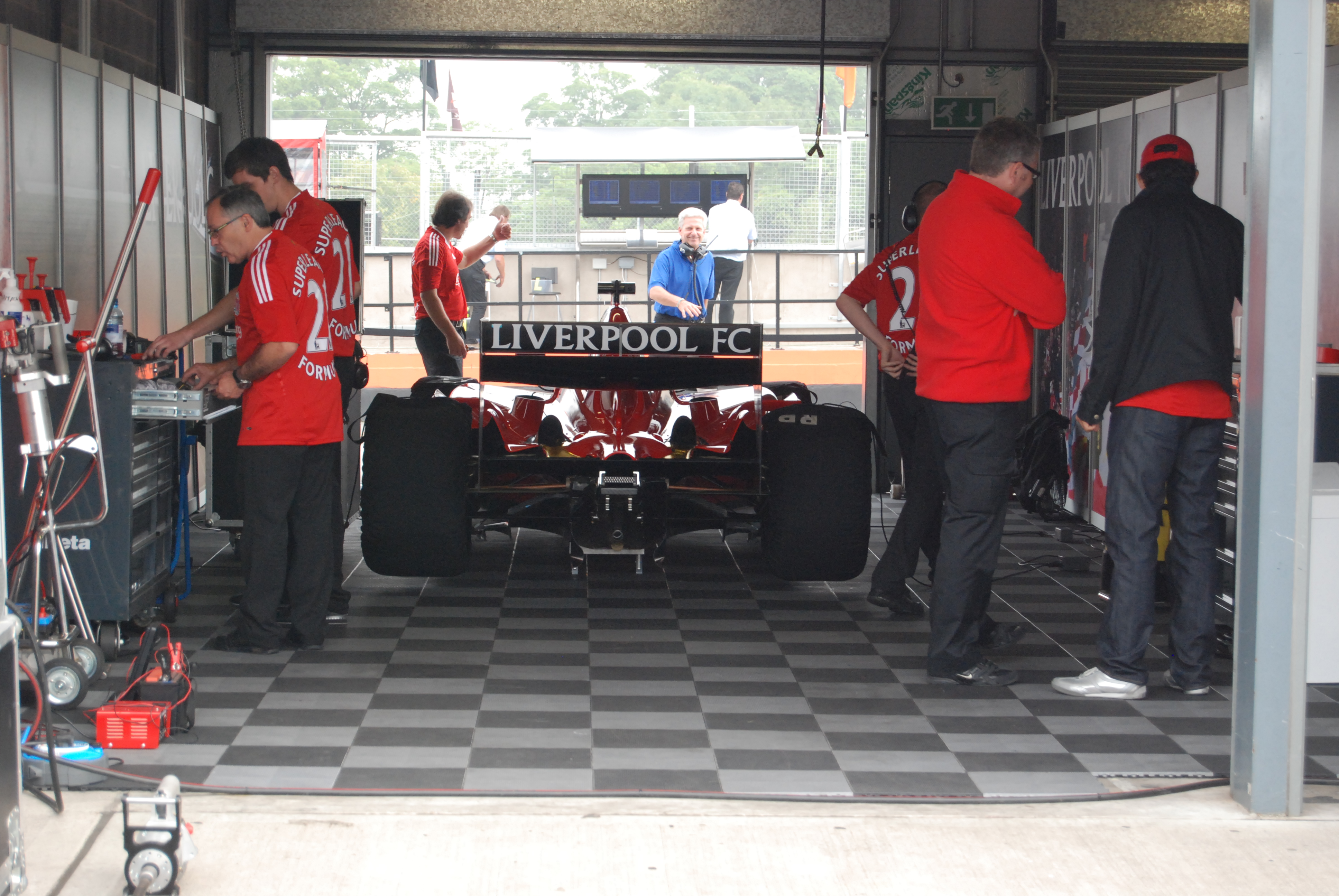 The Liverpool FC Superleague Formula car in the pits at Donington Park.